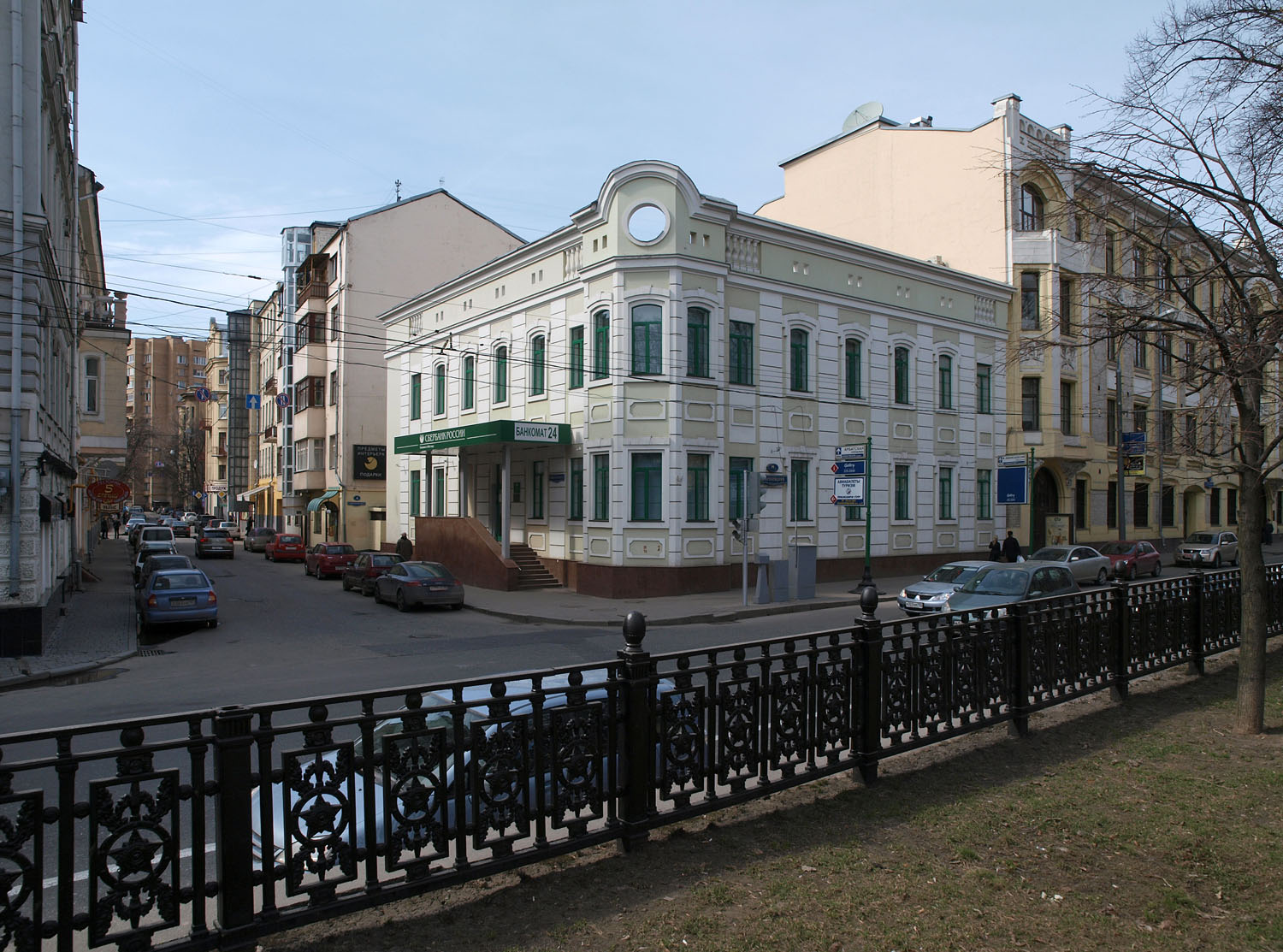 Corner of Gogolevsky Boulevard and Sivtsev Vrazhek (left) in Moscow